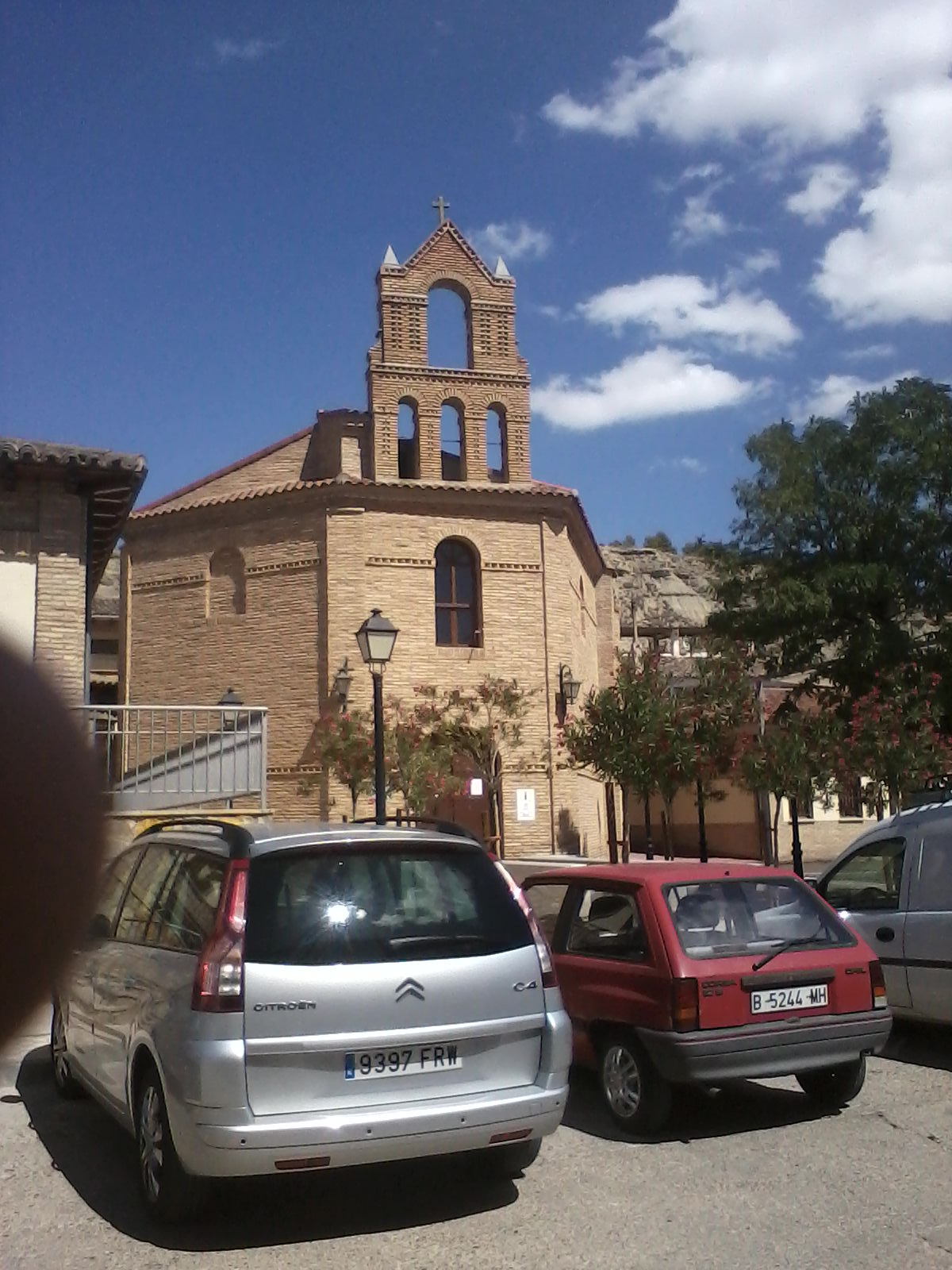 Edificio en el centro de Arguedas